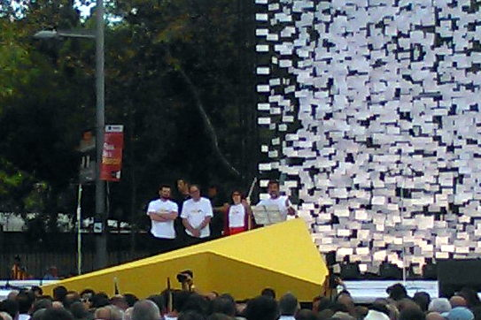 Via Lliure a la República Catalana. A l'escenàri: Gabriel Rufián, Jordi Sánchez, Liz Castro i Quim Torra.